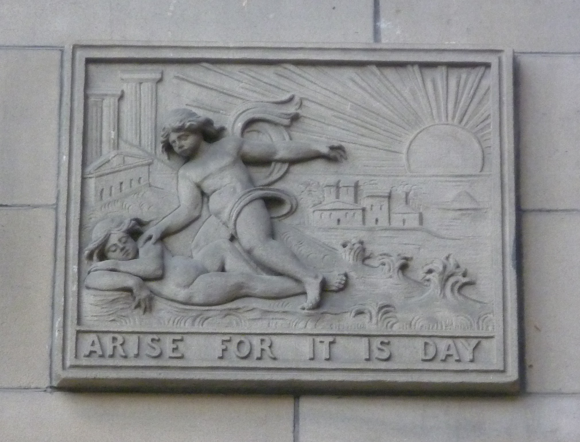 John Day's motto on the facade of Edinburgh Central Library. Day was the publisher of John Foxe's Actes and Monuments, better known as 'Foxe's Book of Martyrs', 1563.